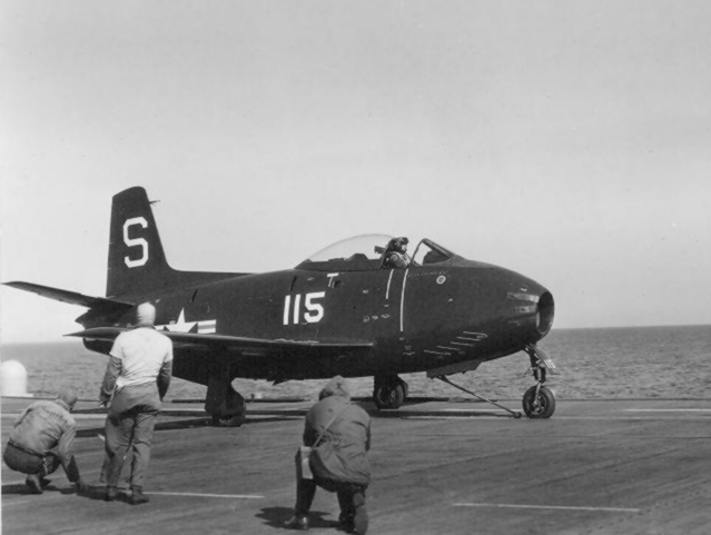 The squadron commander of Fighting Squadron VF-5A Screaming Eagles, CDR Pete Aurand, launching in a North American FJ-1 Fury from the flight deck of the U.S. Navy aircraft carrier USS Boxer (CV-21).